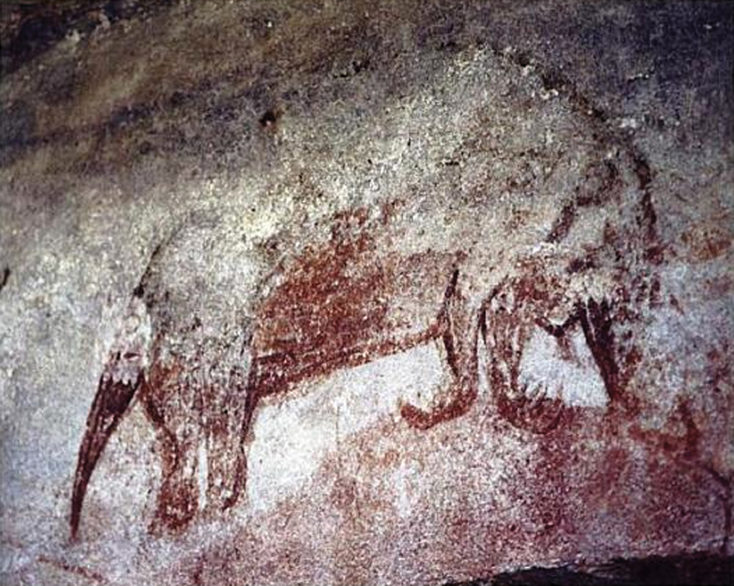 Australian rock art of Zaglossus. Photograph of an Aboriginal rock art illustration from Arnhem Land depicting the characteristic long and down-curved beak (and whitish head of some specimens) of Zaglossus (see Murray and Chaloupka 1984). Photograph by G. Chaloupka.